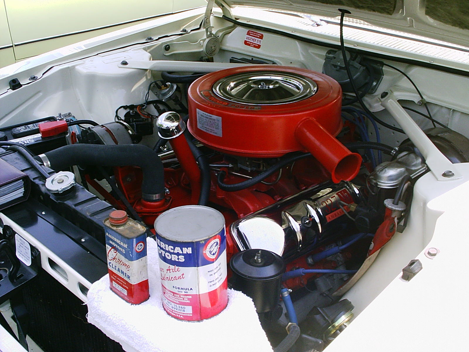 327 4-barrel V8 engine by American Motors Corporation (AMC) in a 1963 Ambassador.